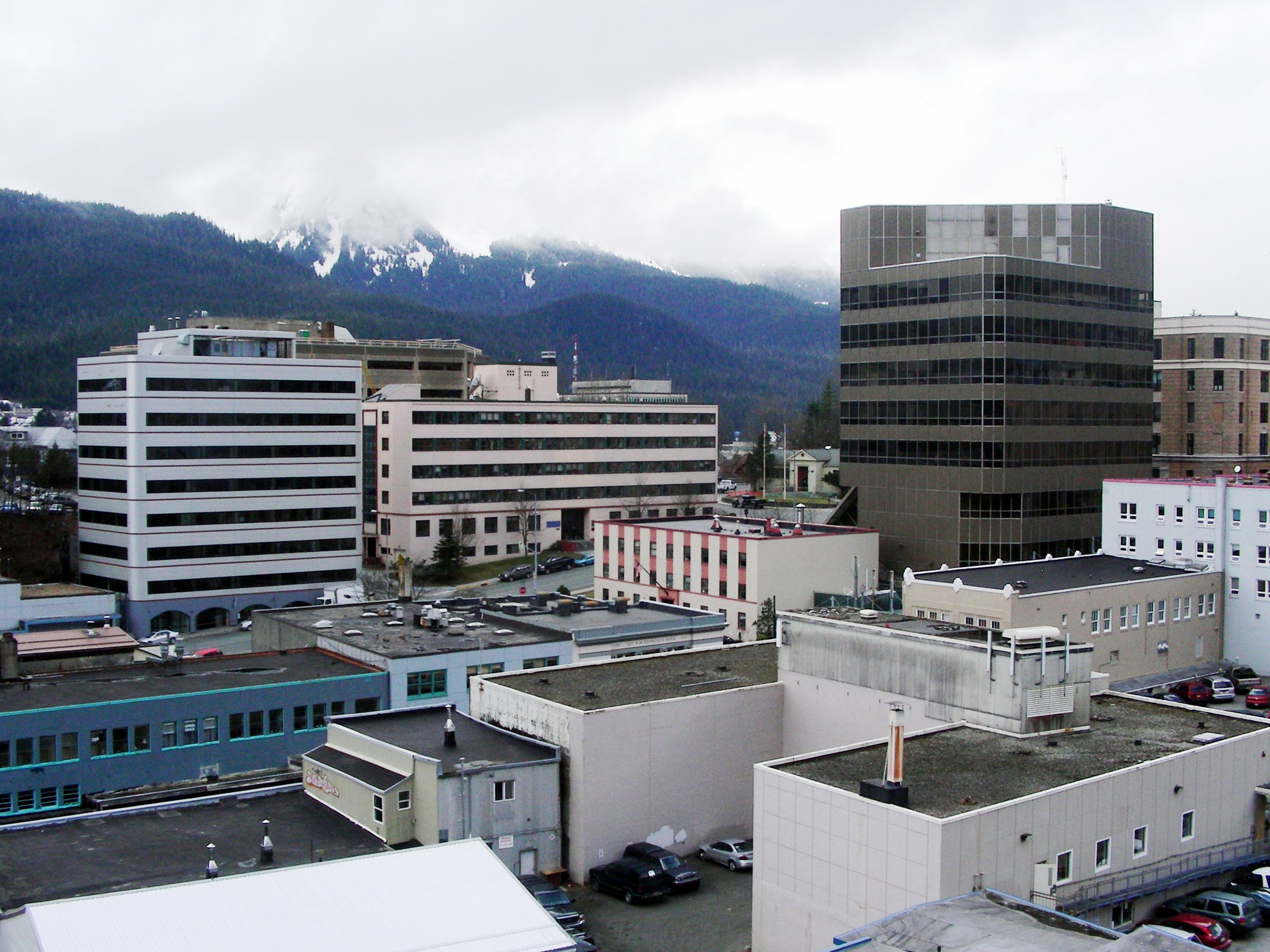 View of downtown Juneau from the Baranoff Hotel, Juneau, Alaska, April 11, 2007